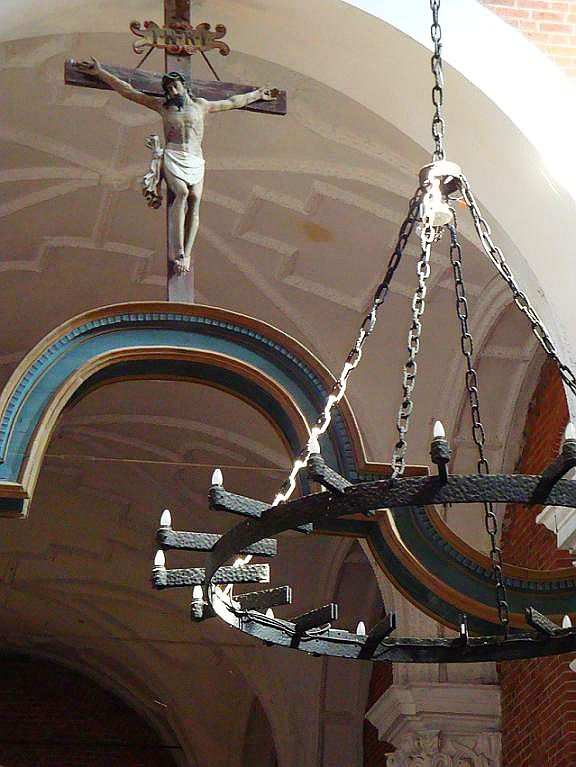 Dominican Church and Convent of St. James in Sandomierz